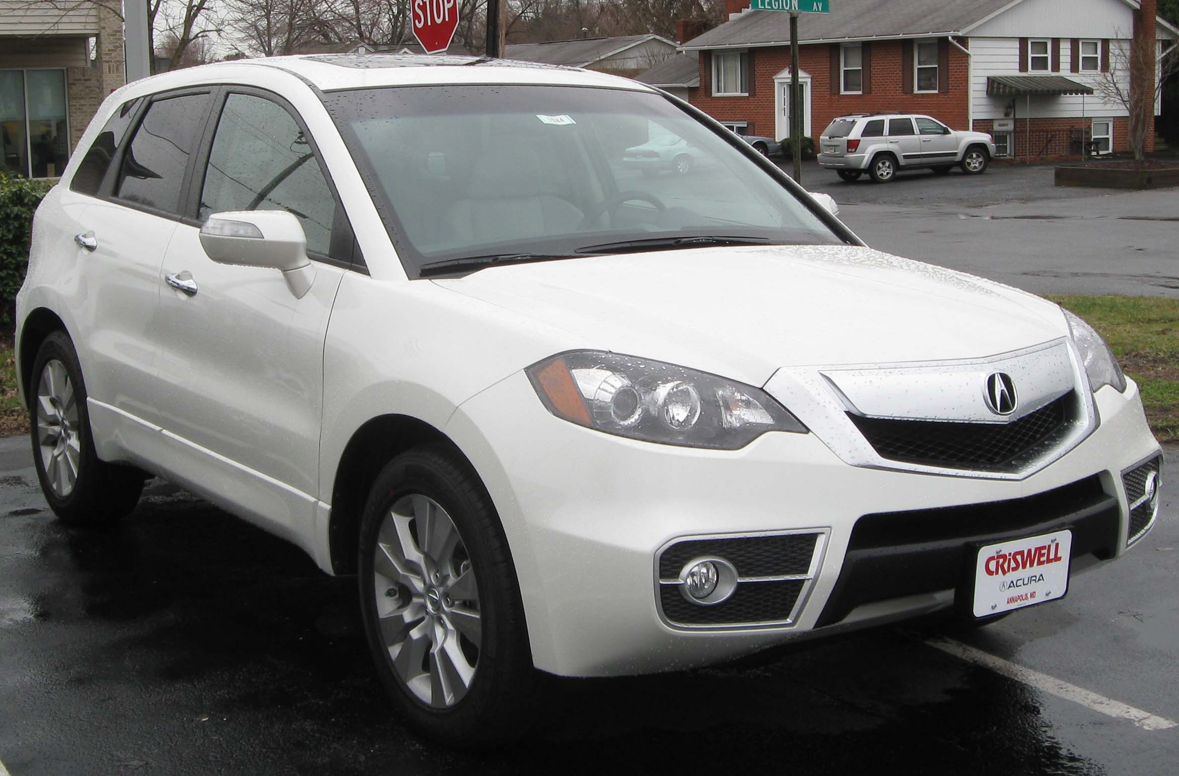 2010 Acura RDX photographed in Annapolis, Maryland, USA.